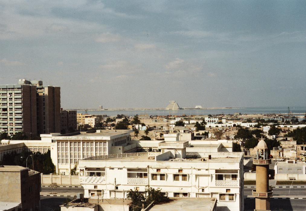 A photo from the early 1980's of Qatar's capital city Doha, looking across the rooftops we can see the Qatar National Museum and further in the distance the West Bay area with the spectacular Sheraton Hotel on the horizon.